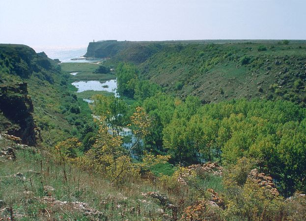 Bolata bay on the Bulgarian Black Sea coast